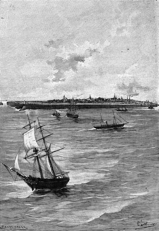 An illustration from Jules Verne's novel "Propeller Island" (also published as "The Floating Island, or The Pearl of the Pacific", 1895) drawn by Léon Benett.